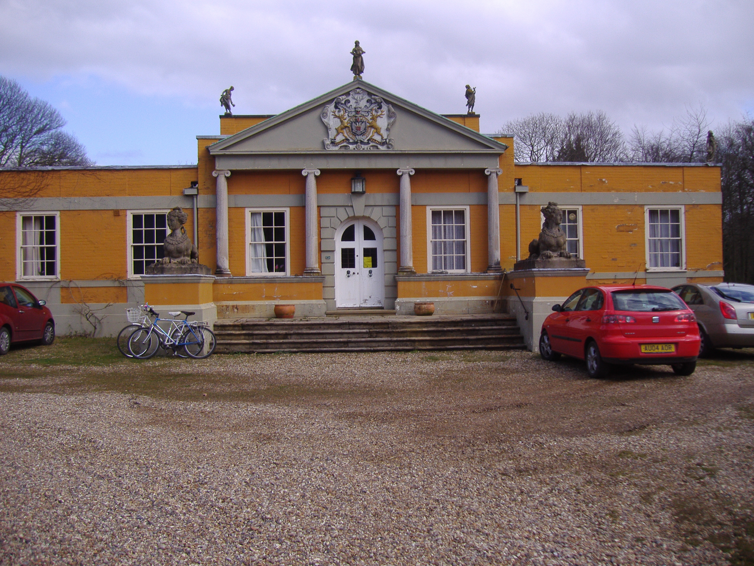 Templewood House, Frogshall, Northepps, Norfolk